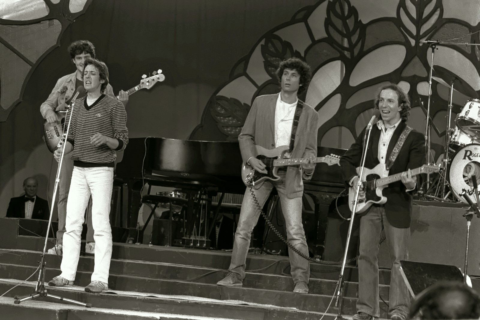 Doda, the pop group of Danny Sanderson and Gidi Gov during a performance in the Teletrom Contributions Evening in the Mann Auditorium in Tel Aviv. דודה, להקתם של דני סנדרסון וגידי גוב בהופעה בערב התרמה בתל אביב